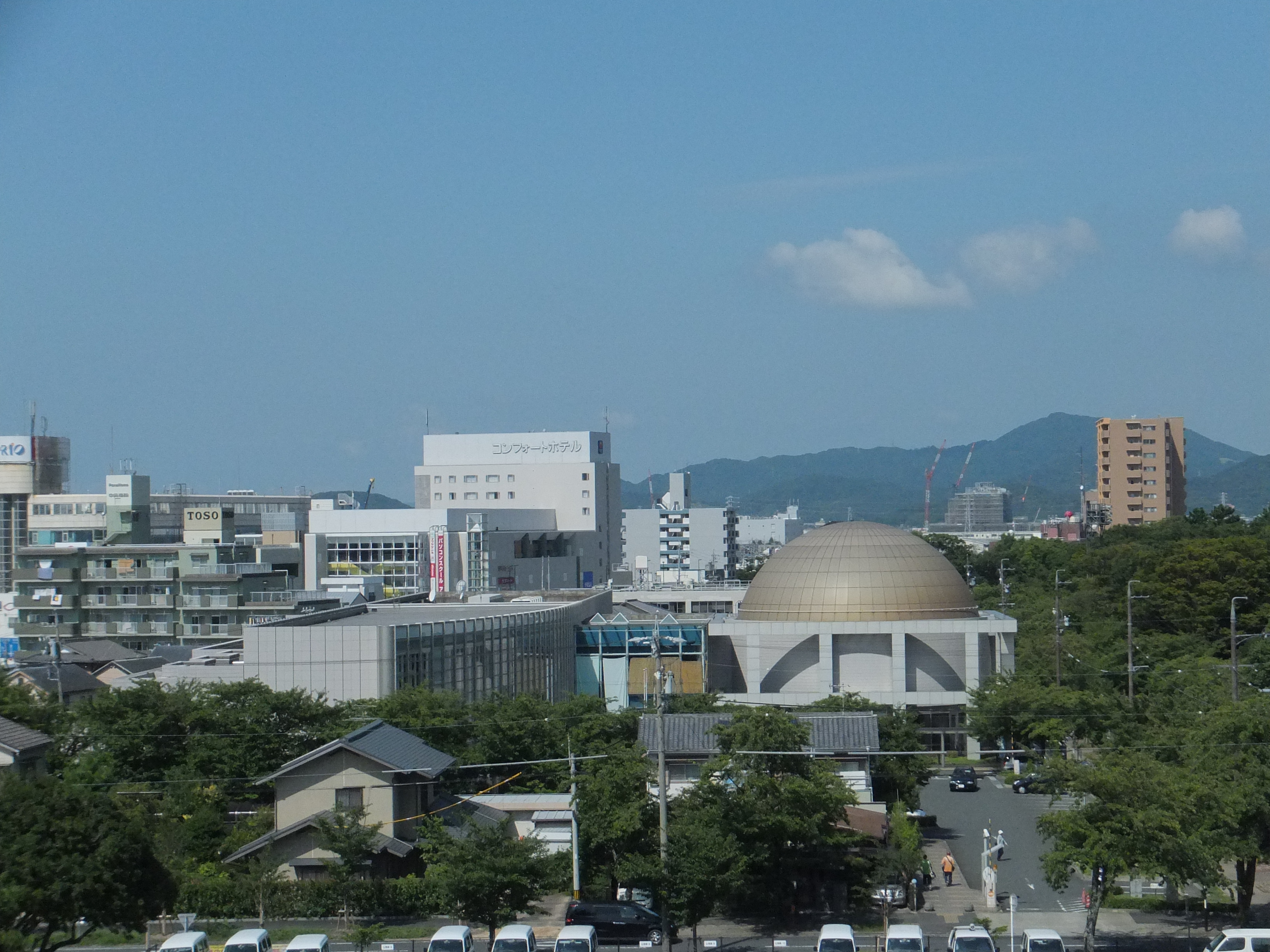 Toyokawa City Library (豊川市中央図書館), at Suwa, Toyokawa, Aichi, Japan